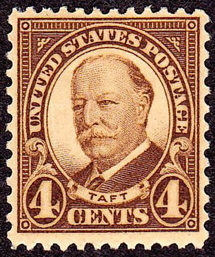 US Postage stamp: William H. Taft, 1930 Issue, 4c, brown